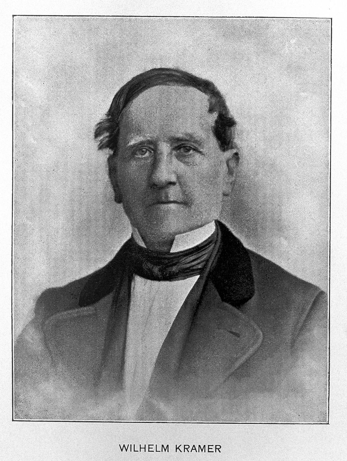 Wilhelm Kramer General Collections Keywords: Wilhelm Kramer